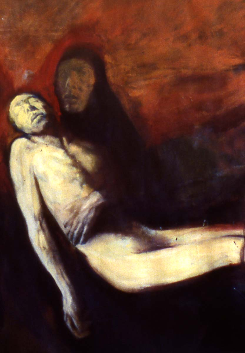 Burial of Christ-detail